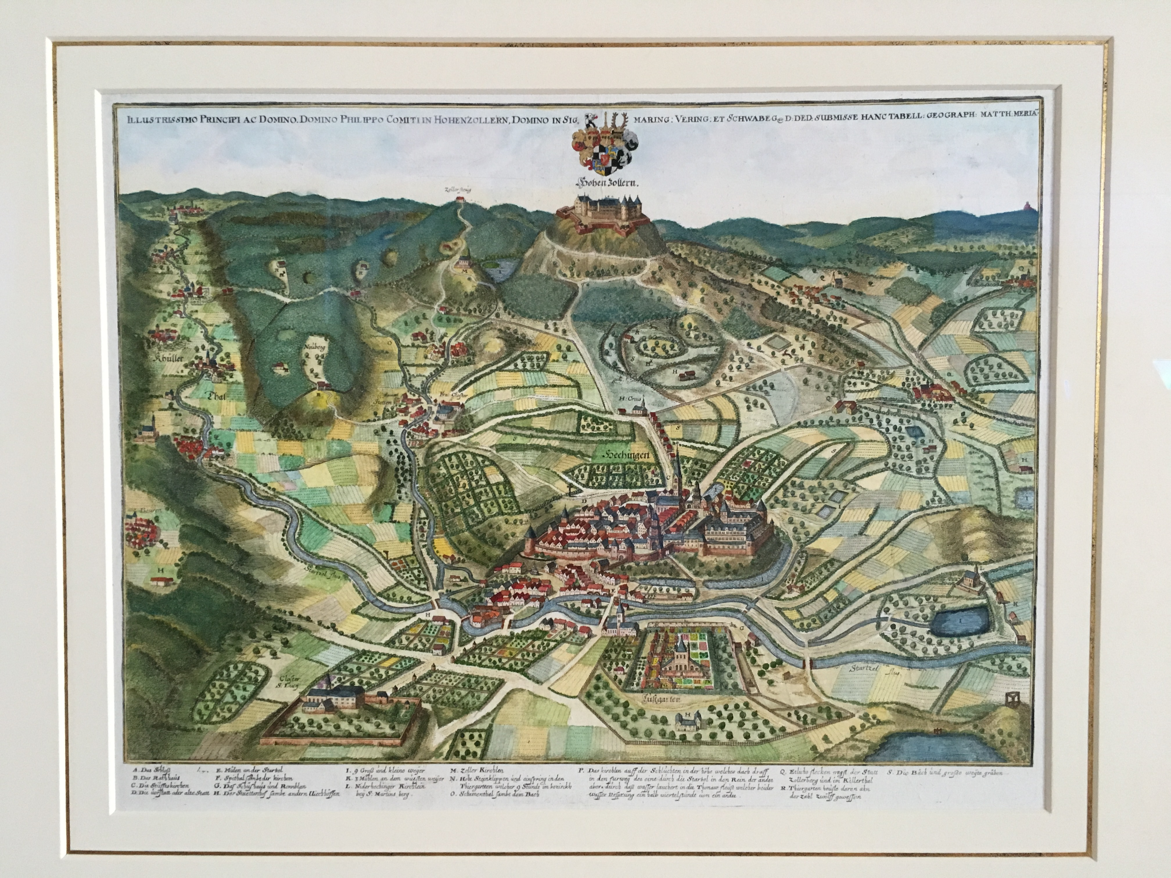 The City of Hechingen with Hohenzollern castle in the German state of Baden Würtemberg, an etching by Matthäus Merian from 1643 (DH Collection).